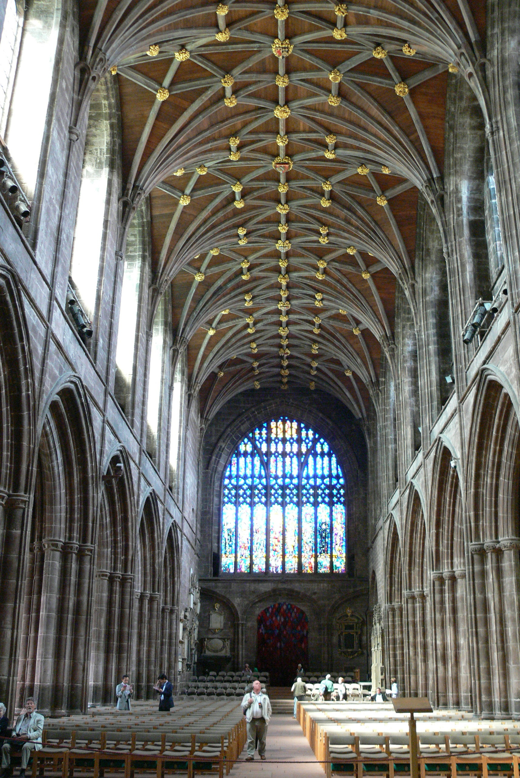 Chester ( England ). Cathedral: Nave ( 14th/15th century ).